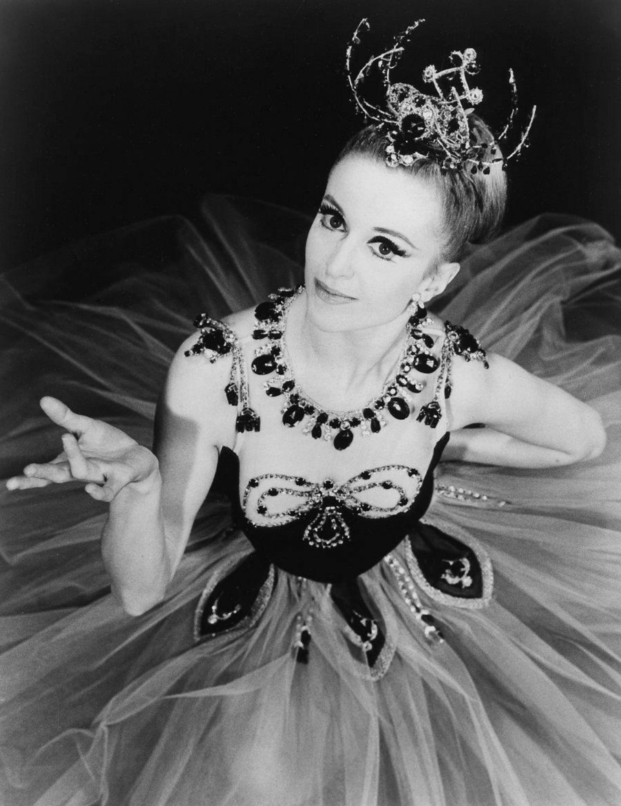 Photo of Violette Verdy from the performance of George Balanchine's ballet, Jewels.